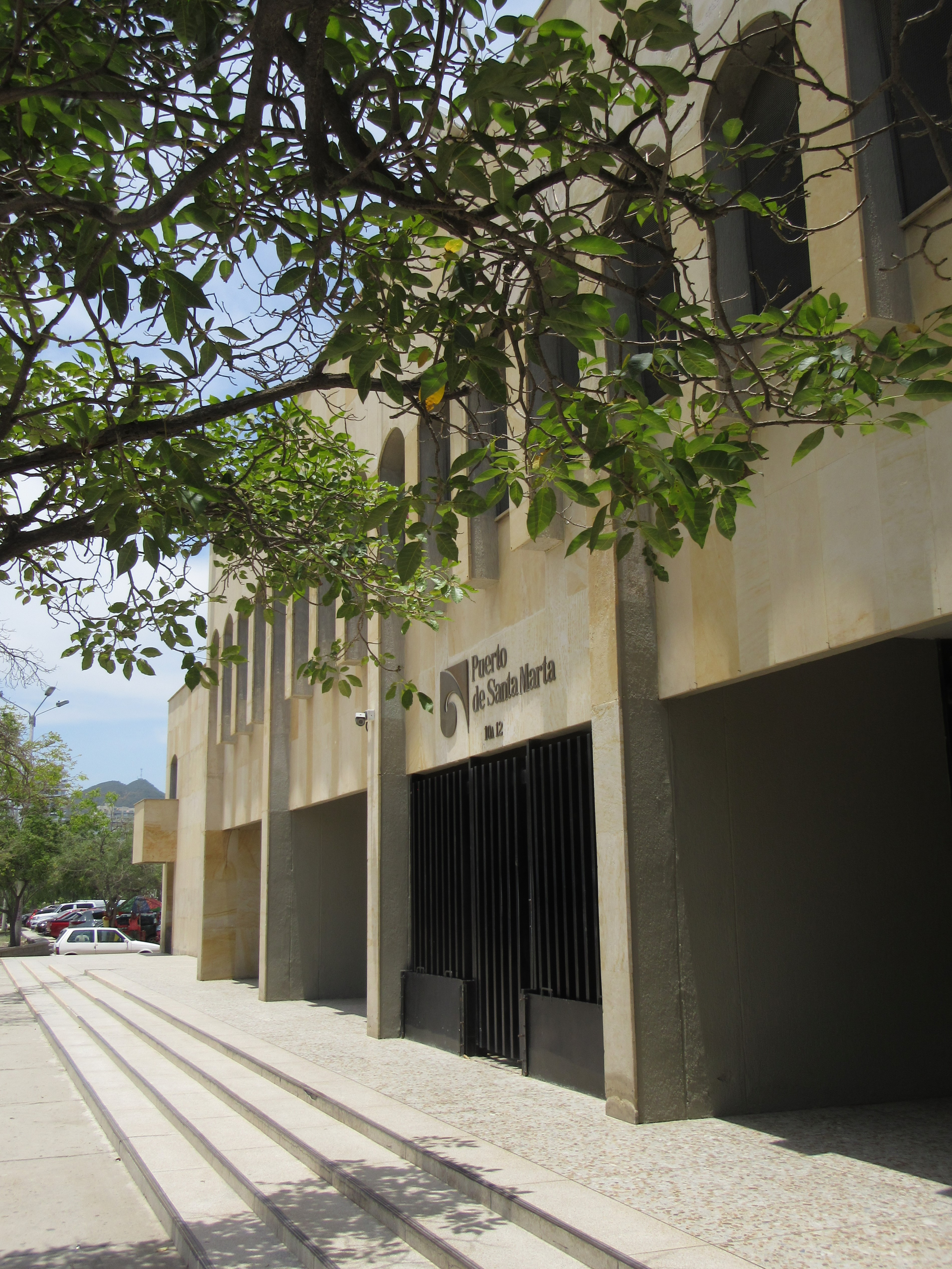 Santa Marta